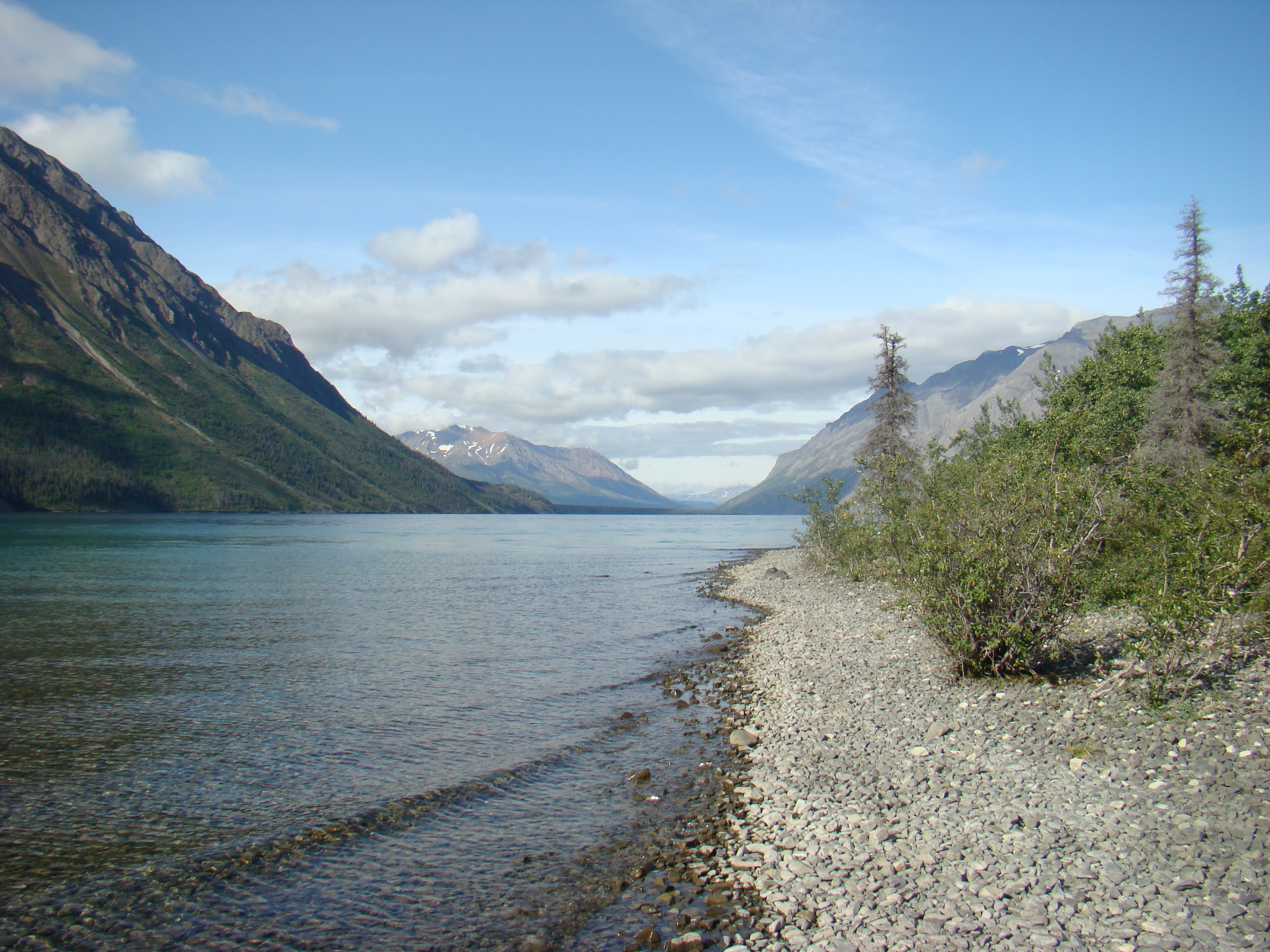 Kathleen Lake, Kluane National Park, Yukon, Canada